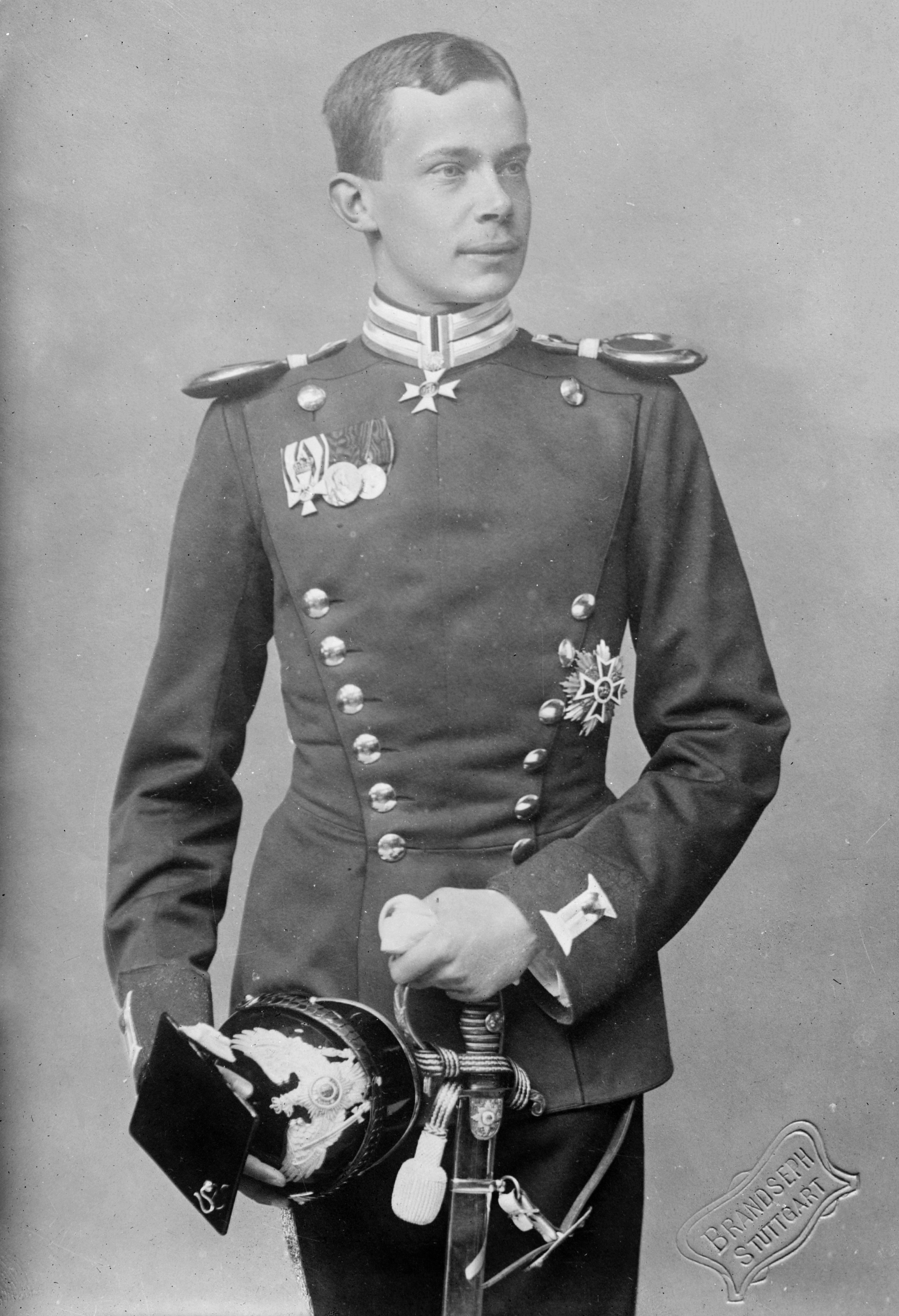 Title: Prince of WiedEdited Cropped Version of the original photograph. Abstract/medium: 1 negative : glass ; 5 x 7 in. or smaller.